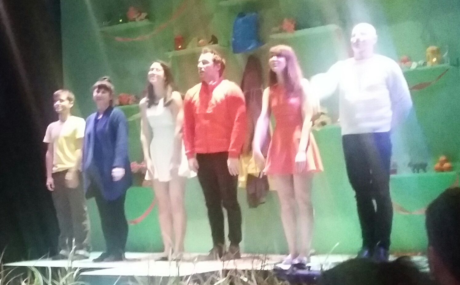 Actors & actresses of the play Un animal mort photographed in Montreal, Quebec, Canada at the centre de théâtre D'Aujourd'hui.